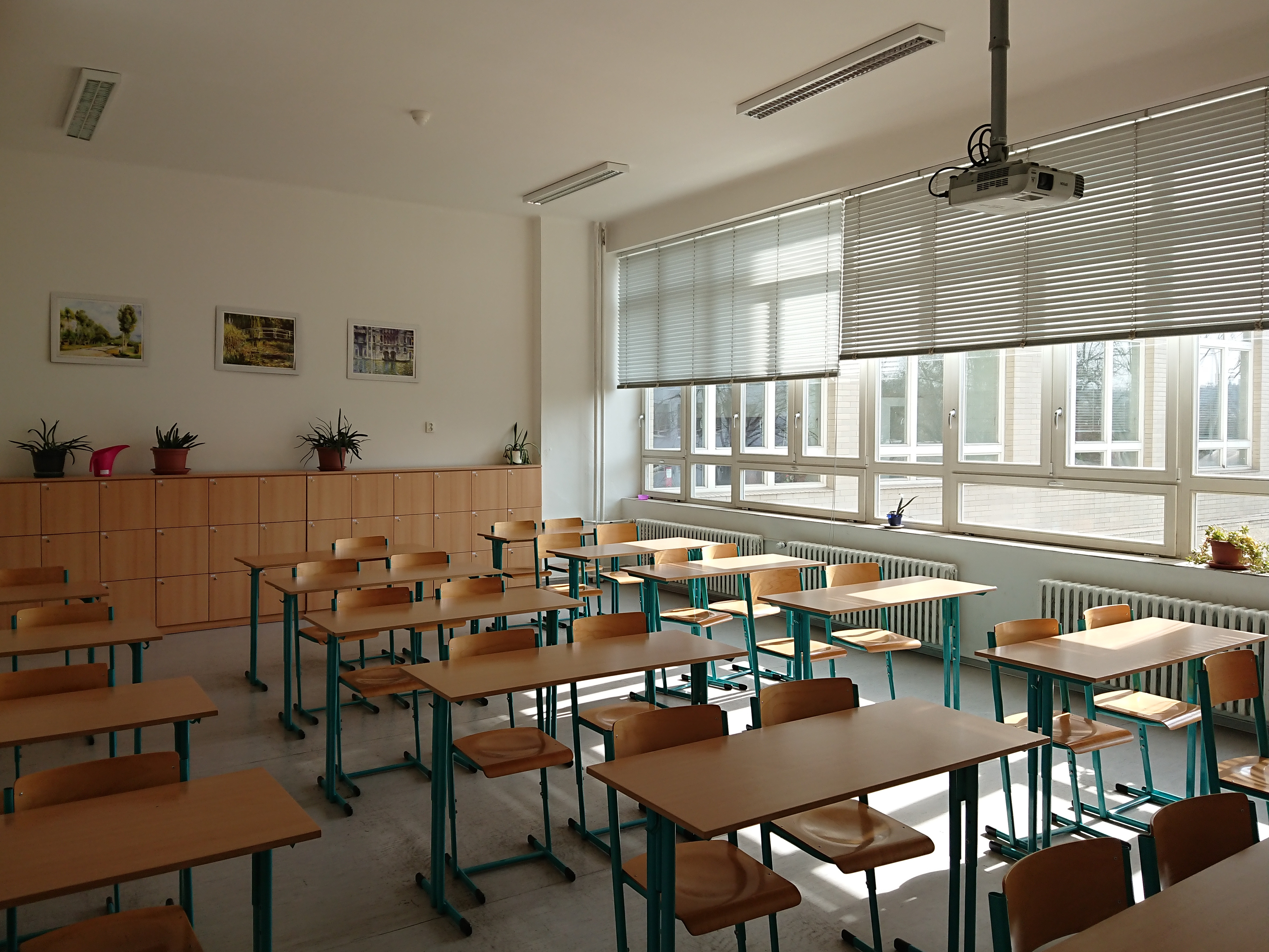 Classroom no. 11 of Gymnázium Špitálská, Prague, Czech Republic